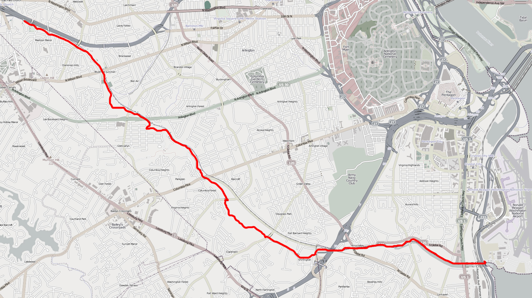 Map of the Four Mile Run Trail. Image has been modified from its original form (trail has been highlighted with a red line and rest of image has been desaturated). This map may be incomplete, and may contain errors. Don't rely solely on it for navigation.